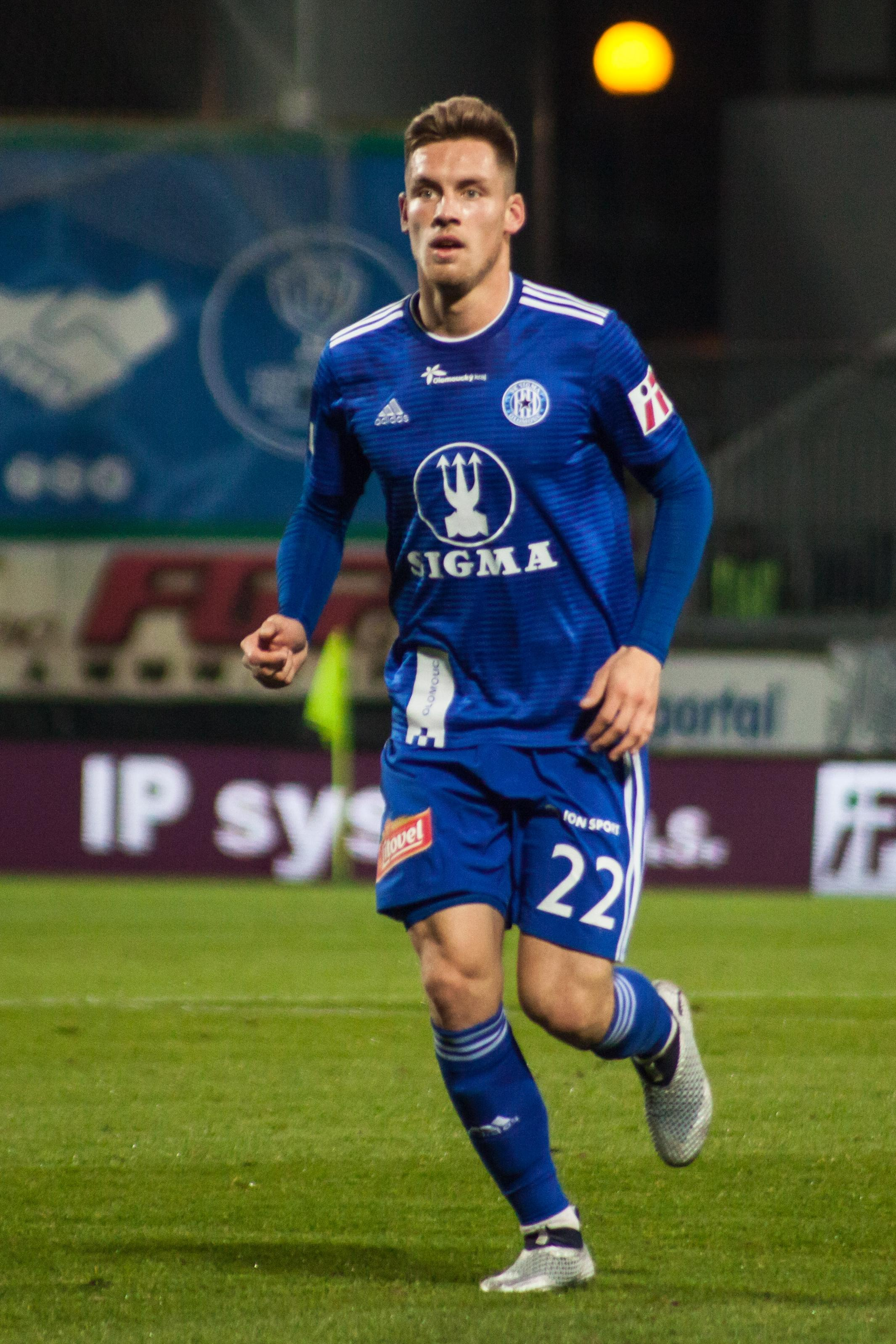 Lukáš Kalvach At Czech cup (MOL Cup) match SK Sigma Olomouc-FC Fastav Zlín played on 15 November 2018